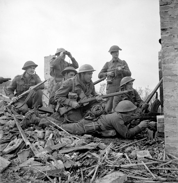 Lieutenant I. Macdonald (with binoculars) of The 48th Highlanders of Canada preparing to give the order to attack to infantrymen of his platoon, San Leonardo di Ortona, Italy. Infantrymen L-R: Sergeant J.T. Cooney, Privates A.R. Downie, O.E. Bernier, G.R. Young, Corporal T. Fereday and Private S.L. Hart.